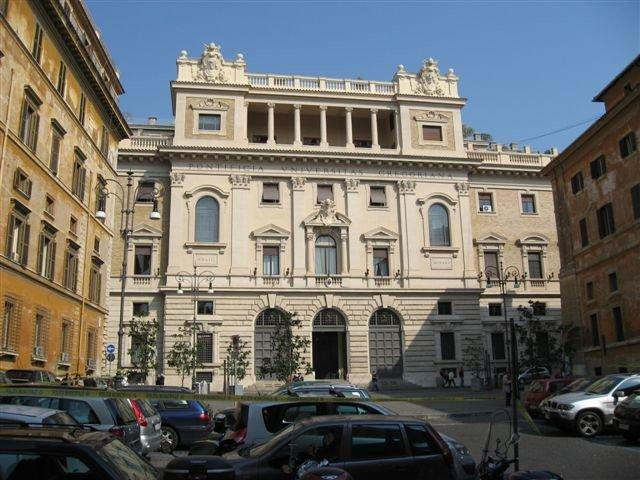 Residential Building at the Pontifical Gregorian University that was the home of John J. Navone, SJ during his tenure as Professor of Theology